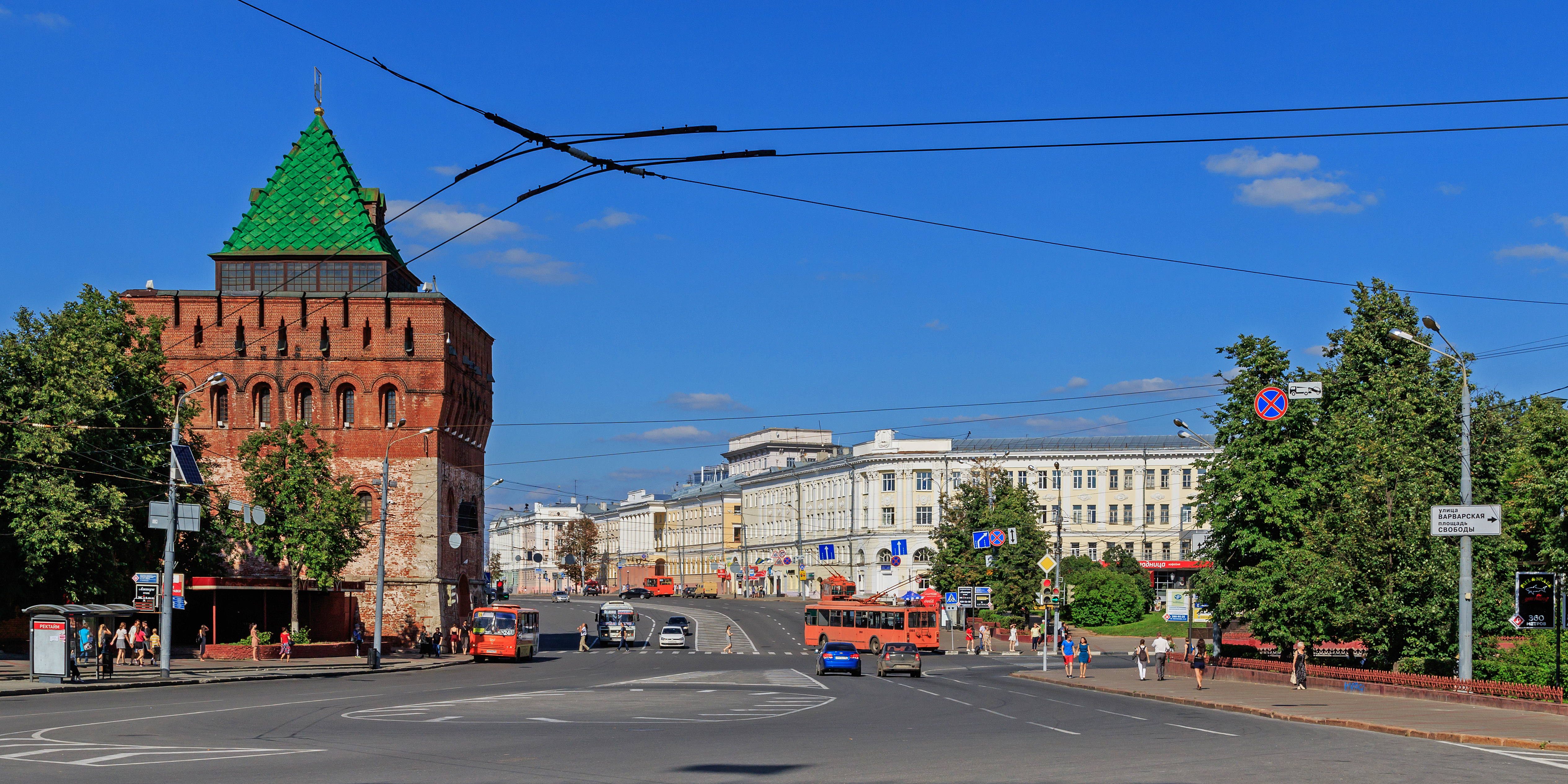 View of Minin and Pozharsky Square. Nizhny Novgorod, Russia.